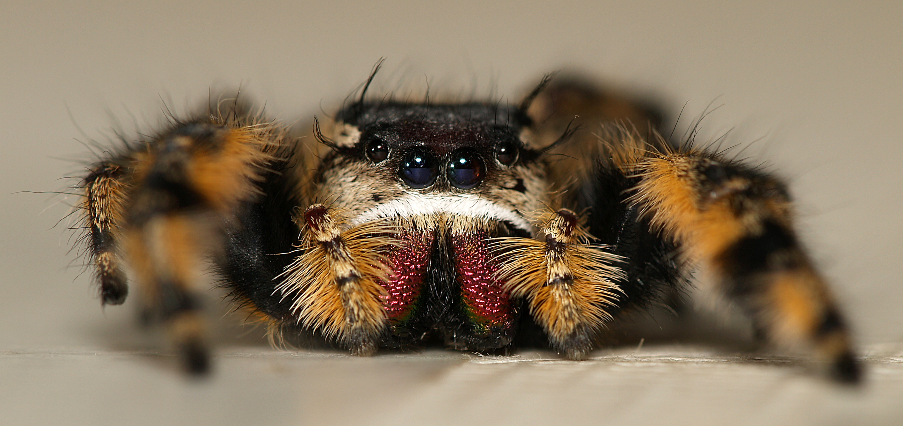 Phidippus otiosus female; post mortem photography.